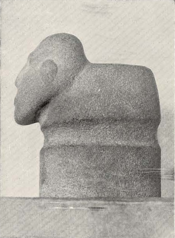 A statue, located in 1906, about a kilometer from the "Sambaqui do Morro Grande". Cataloged by Ricardo Krone in 1914 in a report by CGG-SP.